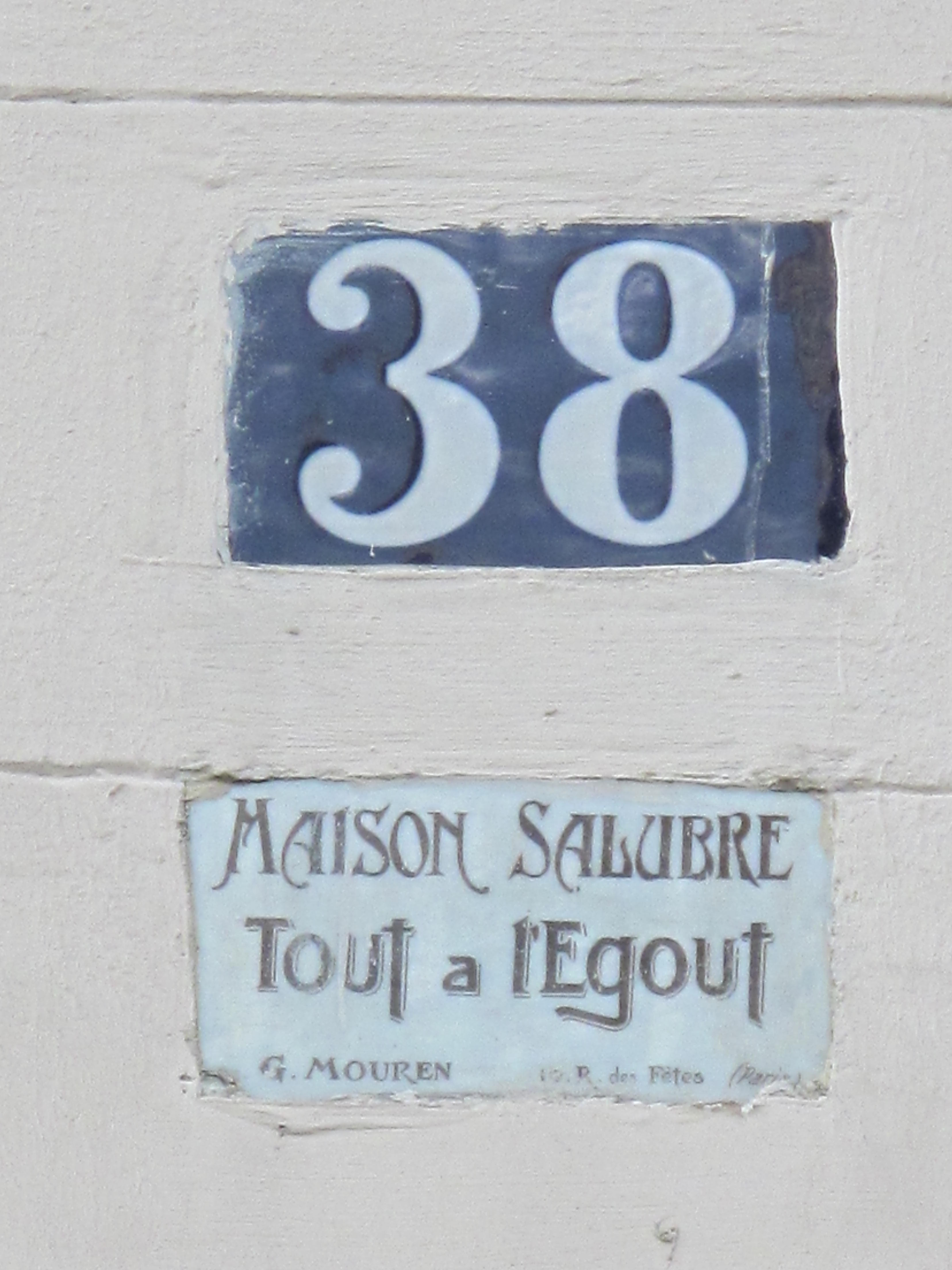 Plaque on the wall of the 38 rue du Vertbois, Paris 3rd arrond. The text is : "Healthy house, main drainage"